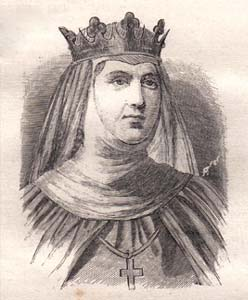 Beatrice of Castile (1293–1359)